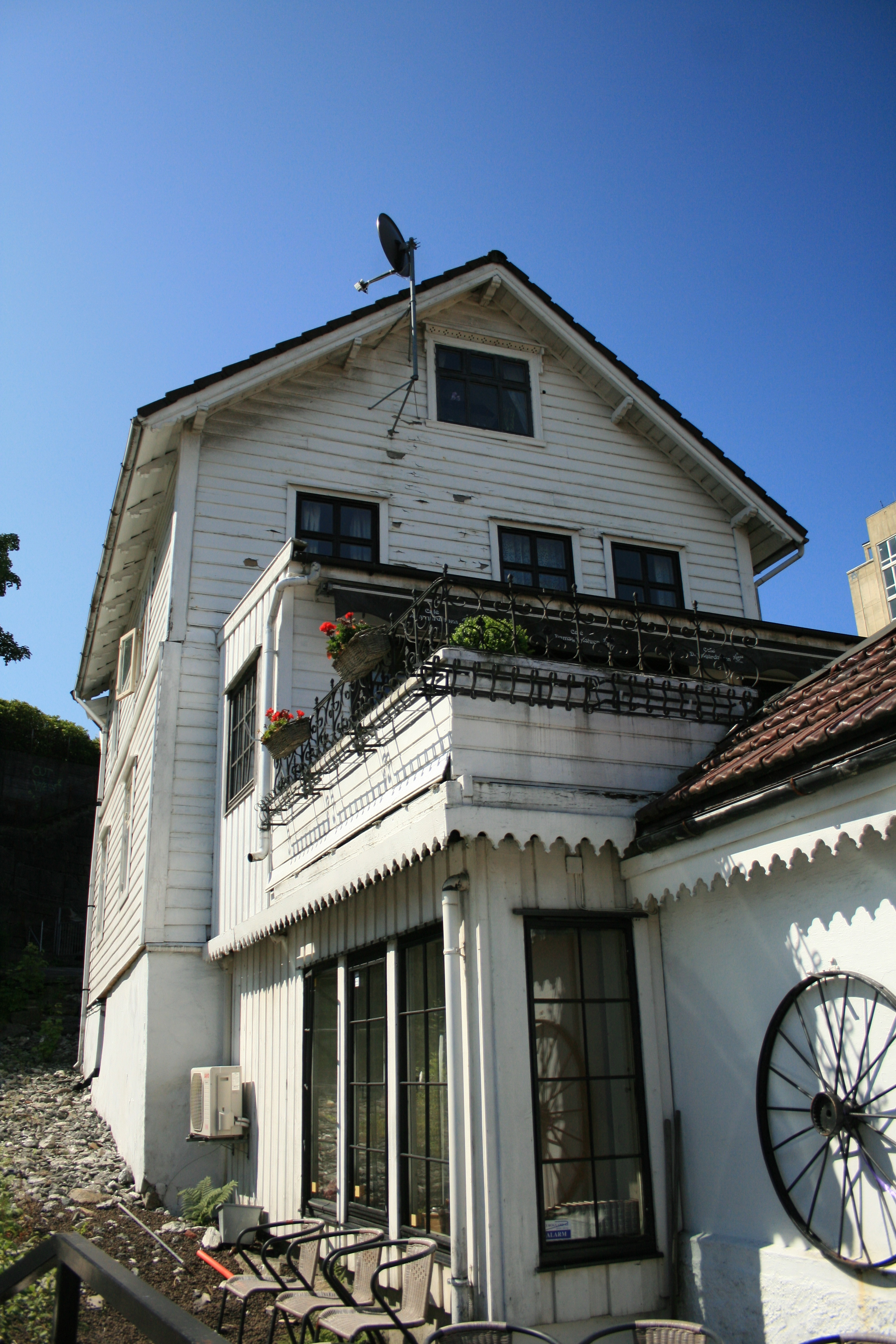 Damsgårdstuene Uteserv2